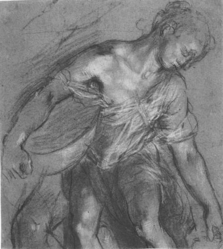 Study for the Institution of the Eucharist (Santa Maria sopra Minerva)